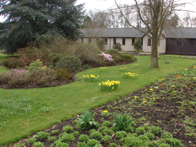 Ottershaw Memorial Garden The beautifully tended Memorial Garden in spring.